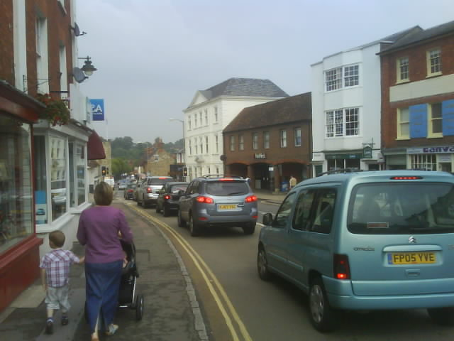 Photo by me on 26th June 2009. Photo shows Buckingham High Street.